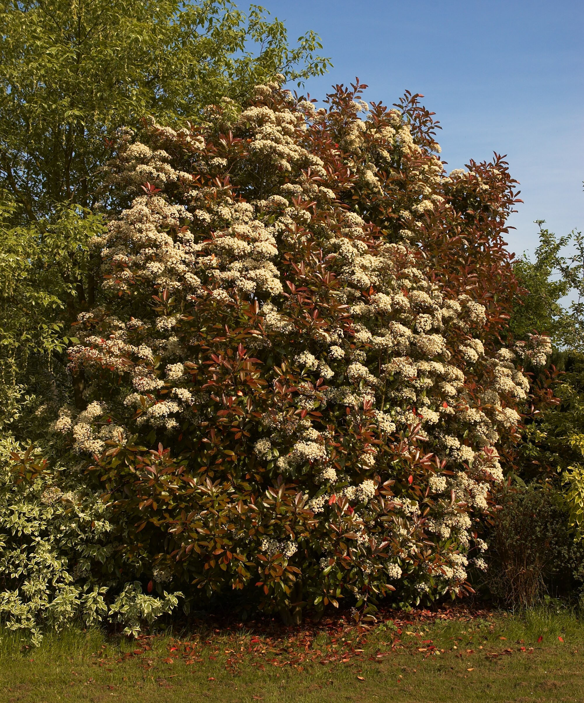 photinia fraseri flowering. Other photos of the same type